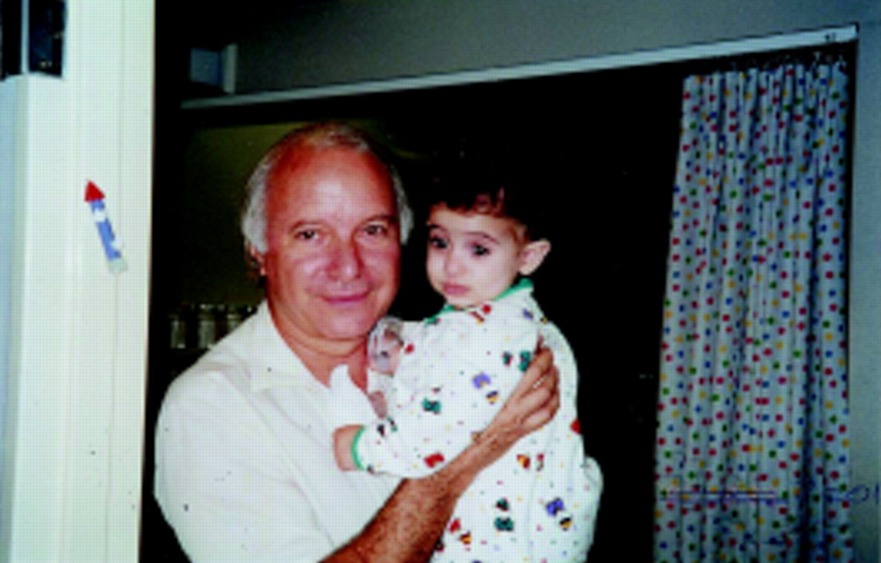 Prof. Shimon Slavin with Baby Salsabil. First successful treatment for 'bubble babies'. [1]